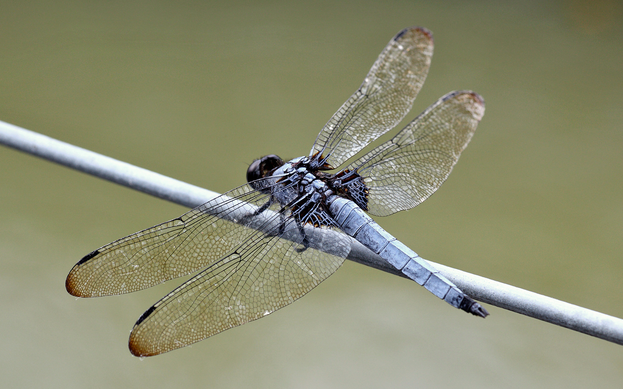 Common skimmer